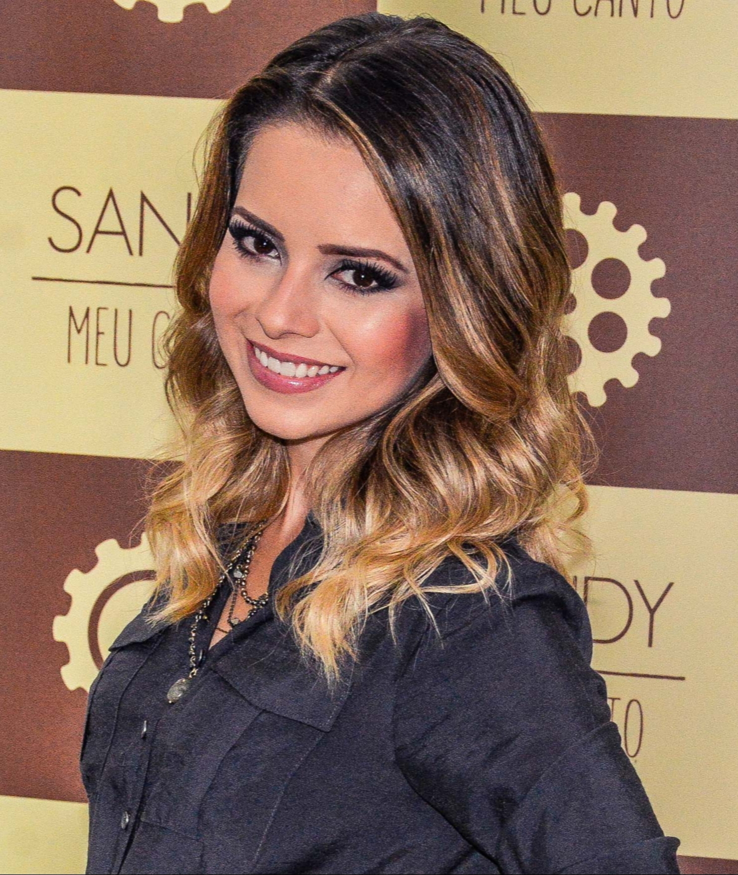 Sandy na estreia nacional do show "Meu Canto" no palco do Tom Brasil.